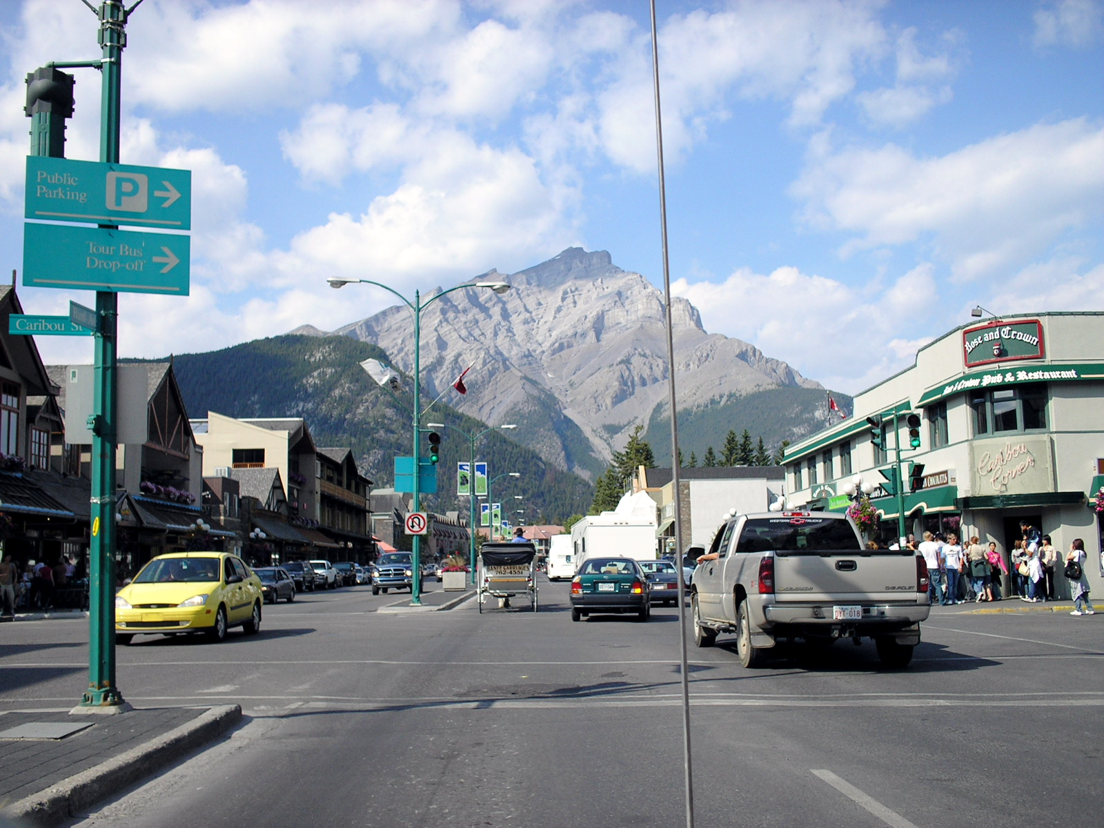 Coin de Banff Ave & Caribou St, Banff, Alberta, Canada; au nord, Mont Cascade en arrière-plan. Photo prise le 13 août 2005. Corner of Banff Ave & Caribou St, Banff, Alberta, Canada; facing north, Cascade Mountain in the background. Photo taken 13 August 2005. Mes excuses pour l'antenne en plein millieu du photo.